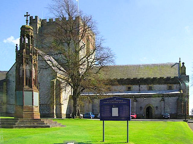 St Asaph's Cathedral It is the oldest Cathedral in Wales and the smallest in Great Britain and the town was never allowed city status. It was built in the 15th Century and houses William Morgan's first Welsh translation of the bible